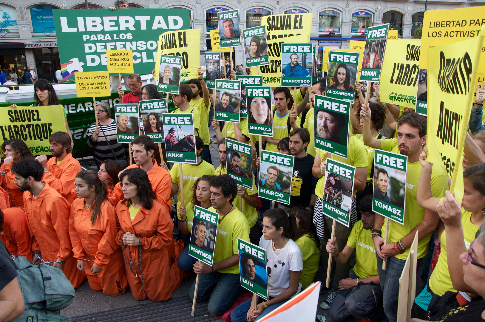 Protest in Puerta del Sol (Madrid, Spain) against the detention of 30 activists in Russia. The detained activists were peacefully protesting against oil drilling in the Arctic.